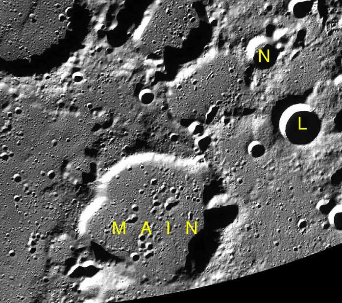 Part of the chart LAC-1 used for the presentation